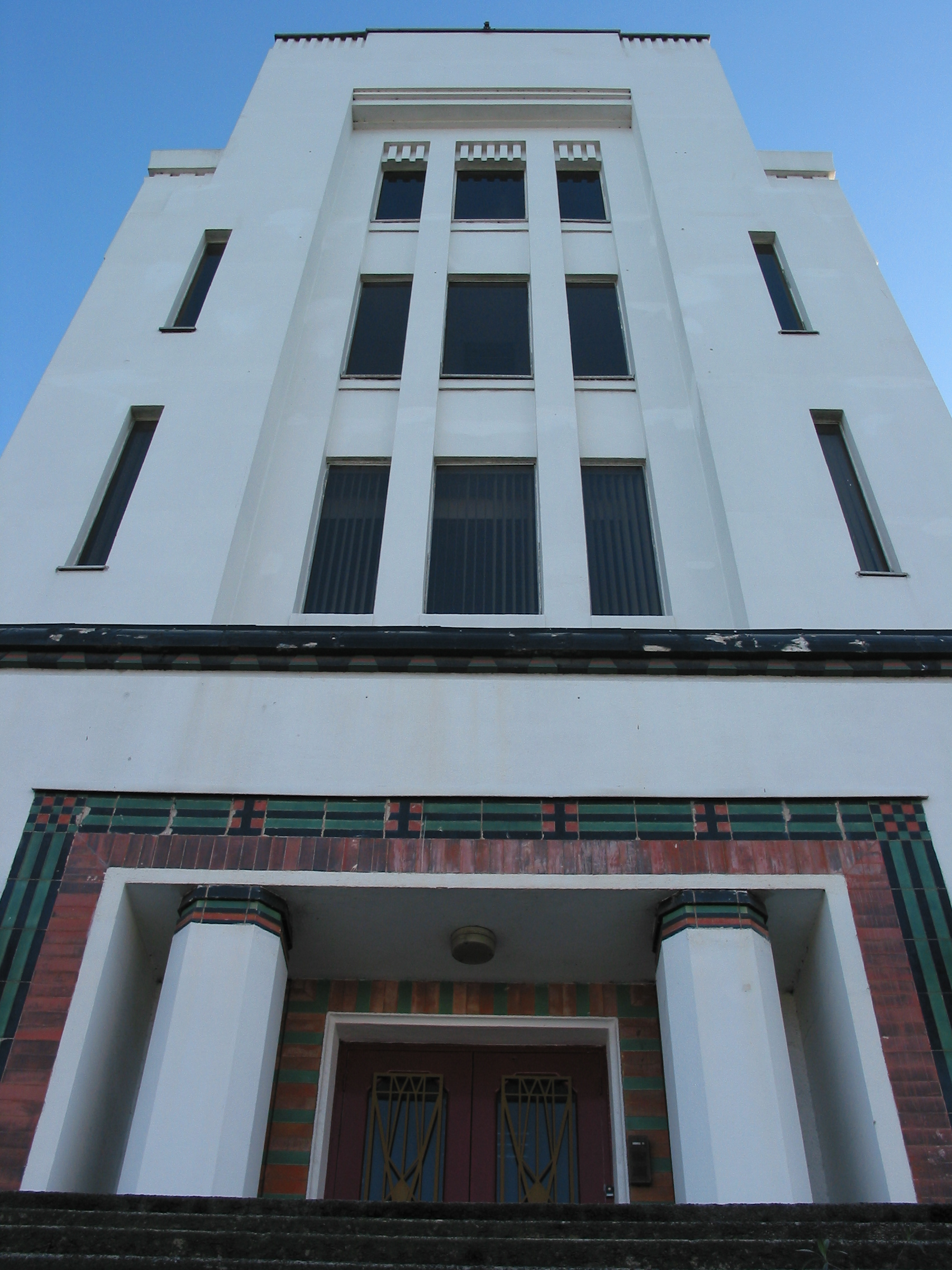 Central tower detail picture of the frontage of the Art Deco Pyrene Building (now Westlink House), designed by the Wallis, Gilbert and Partners partnership between 1929 and 1930, Great West Road, Brentford, UK photo by myself Date and Time 2005:01:23 13:21:49 Exposure Time 1/400 sec. F Number f/4.0 Copyright © 2005 WLD